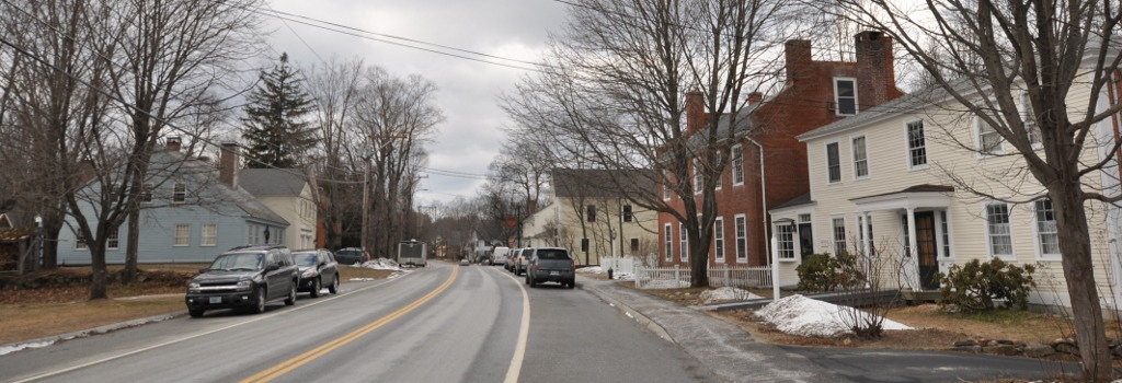 Main Street, Francestown, New Hampshire